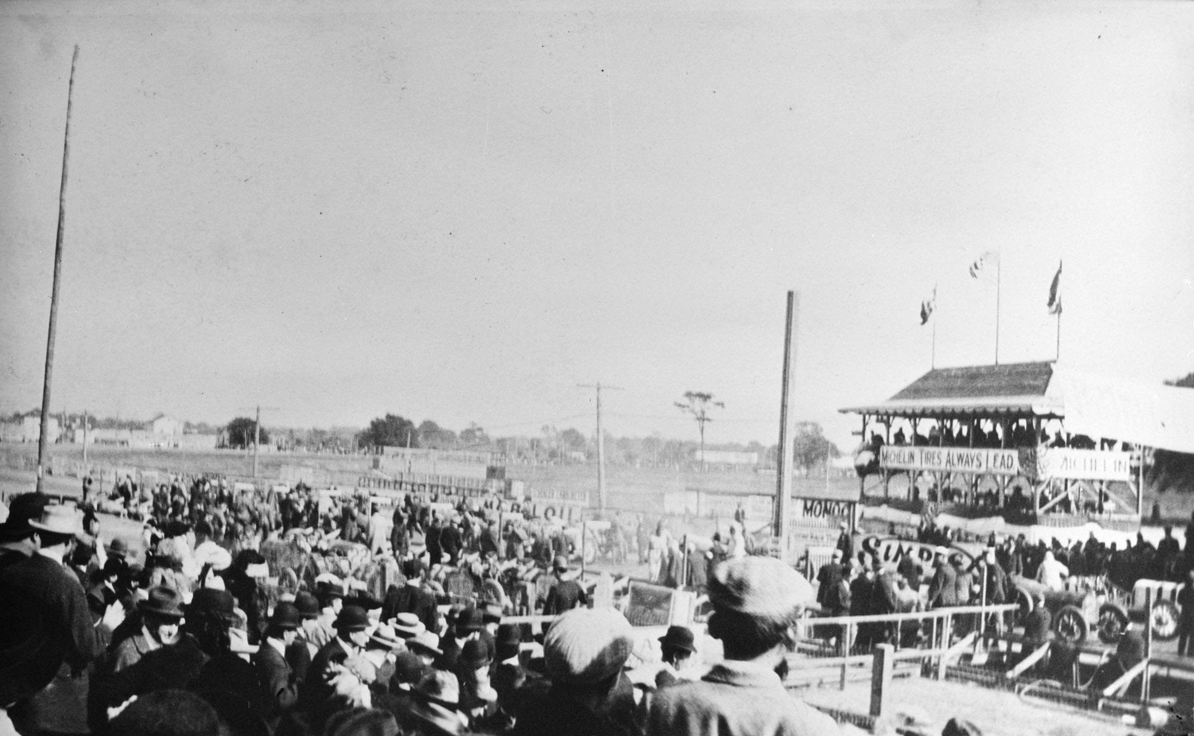 The 1911 American Grand Prize in Savannah, Georgia